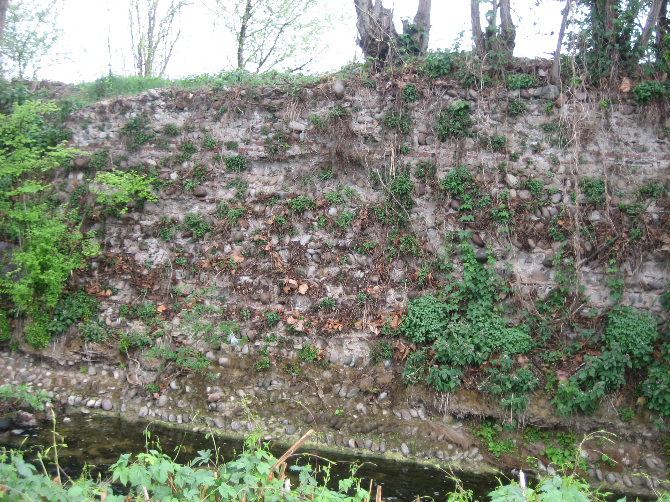 VillafrancaDiVerona Serraglio RuderiLungoIlFiumeTione 8 2012